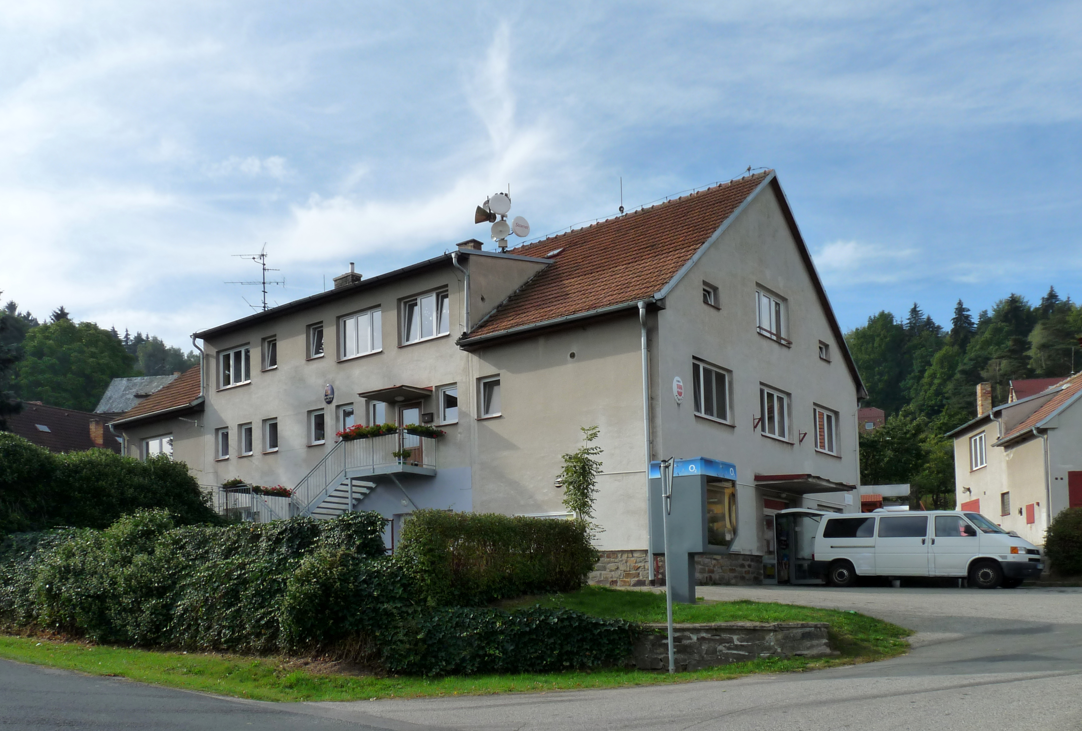 House No 45 in the village of Zubčice, Český Krumlov District, South Bohemian Region, Czech Republic.